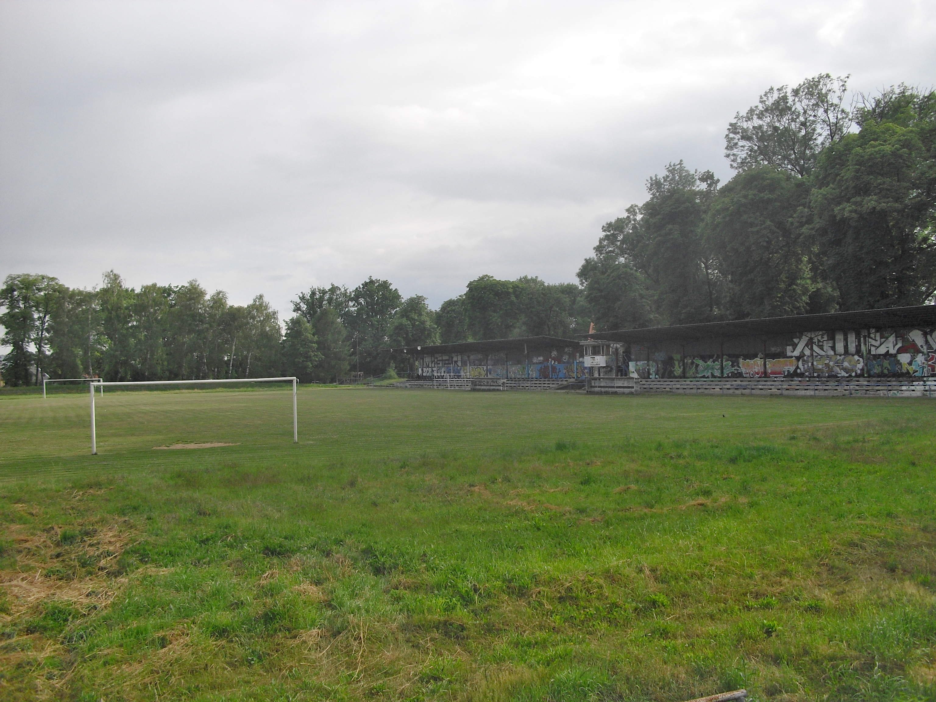 Holešov, Kroměříž District, Czech Republic. Football stadium.